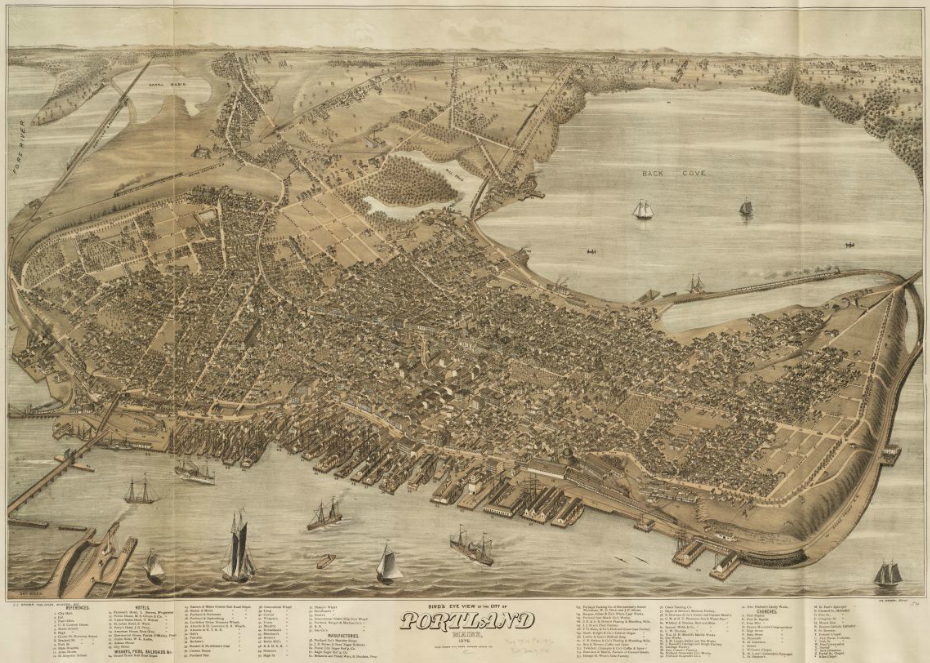 Bird's eye view of the city of Portland, Maine, 1876 Author: Warner, Jos. Publisher: Stoner, J. J. Date: 1876 Location: Portland (Me.) Dimension 56.0 x 86.0 cm. Scale: Not drawn to scale